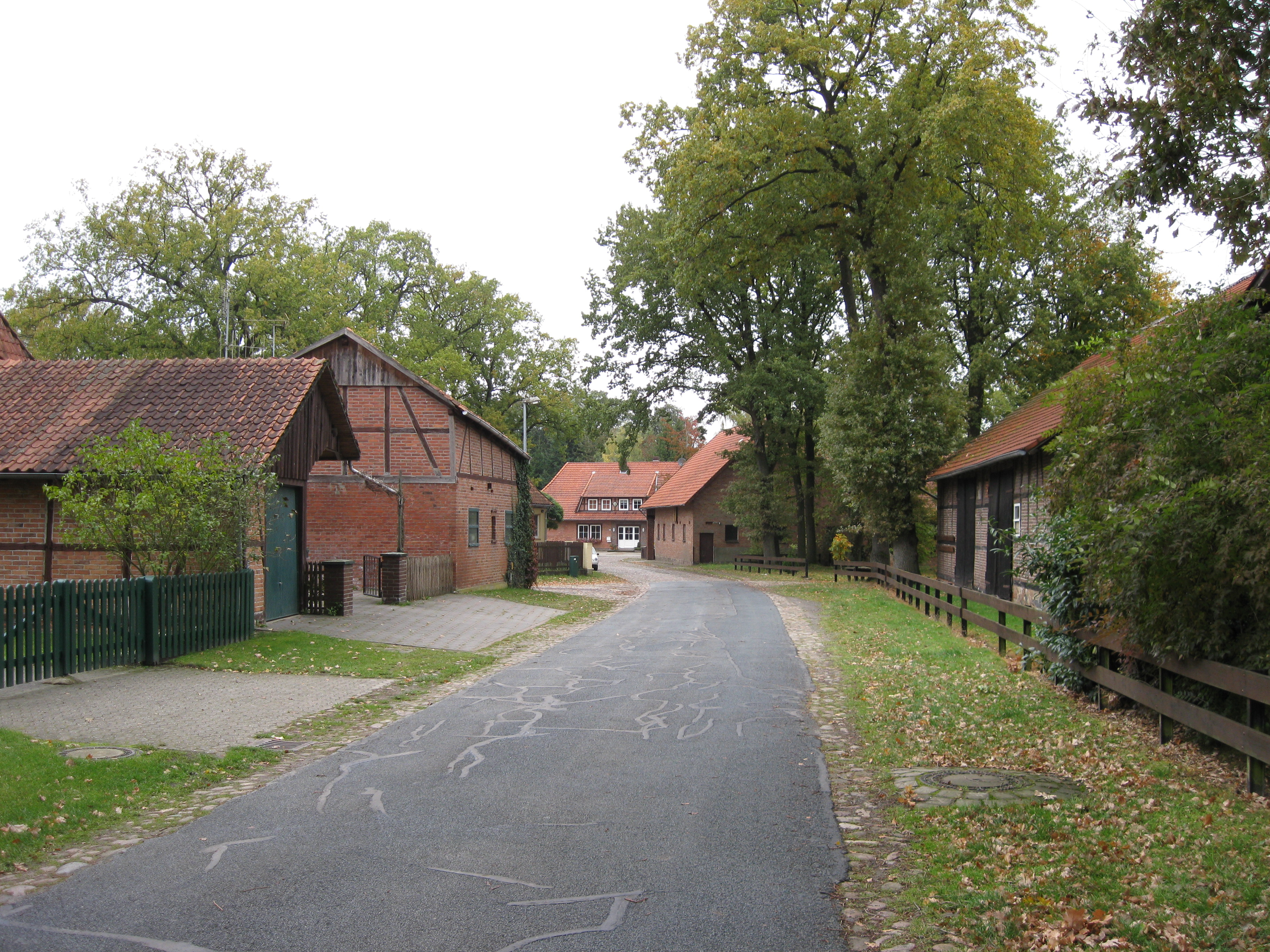 Stellichte, Germany